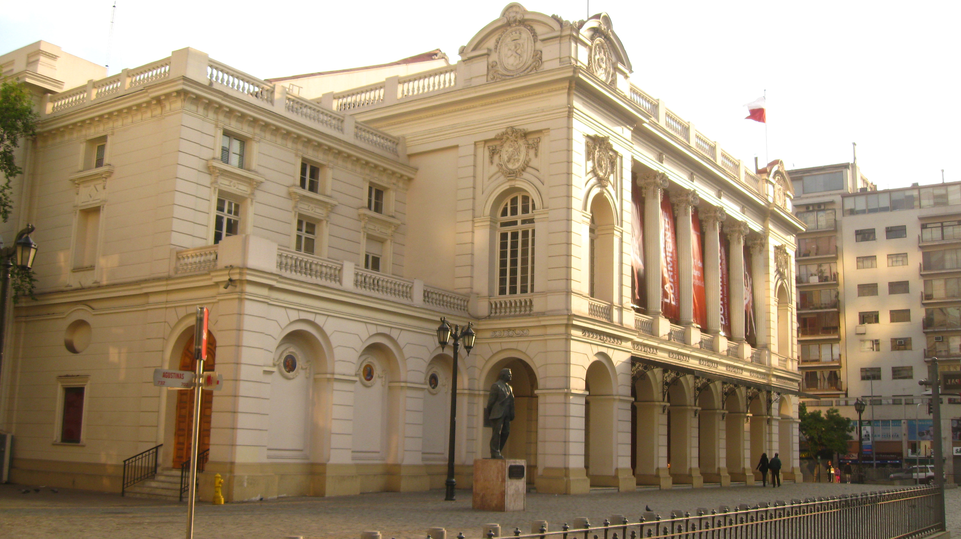 This is a photo of a national monument in Chile: 208